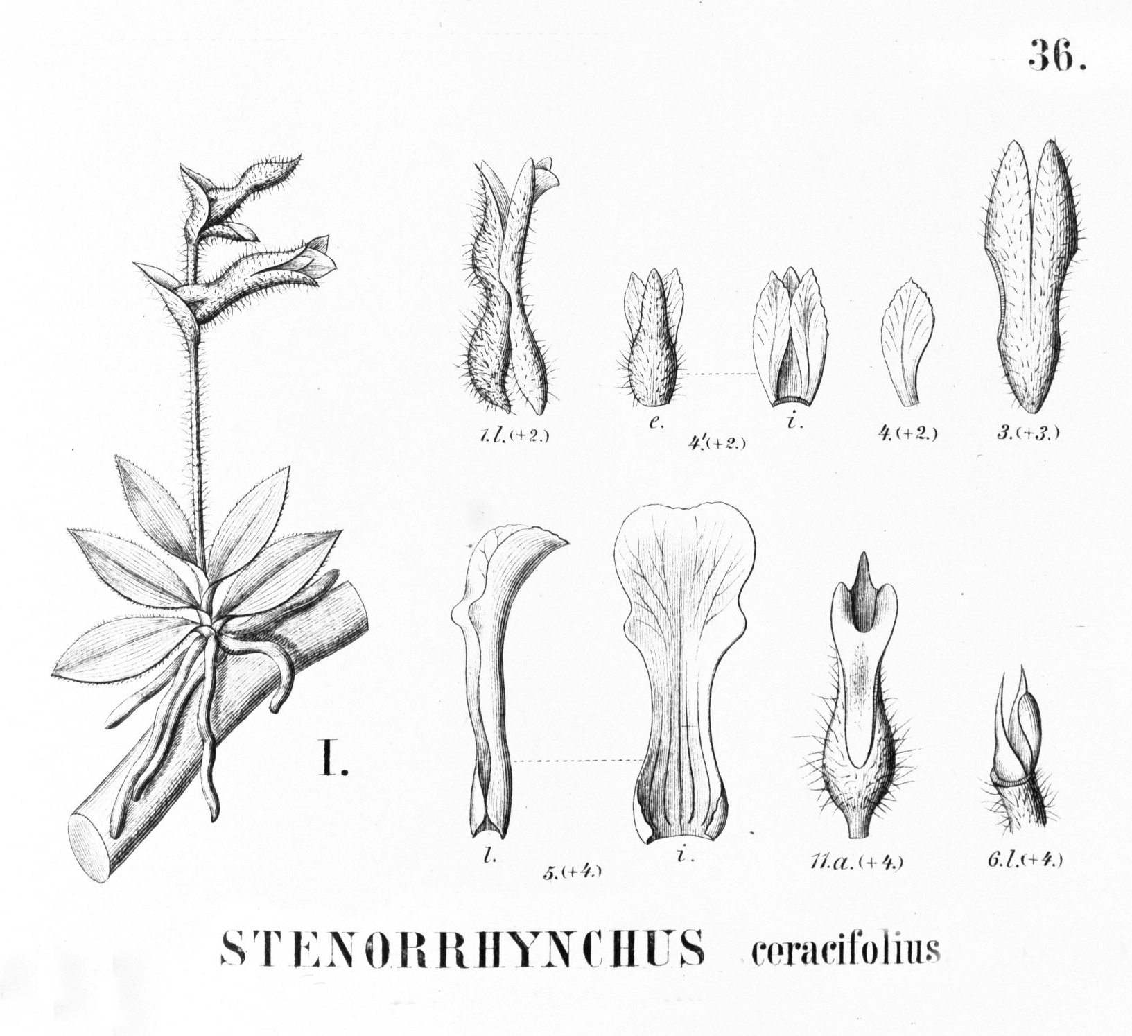 Illustration of Lankesterella ceracifolia (as syn. Stenorrhynchos ceracifolium)